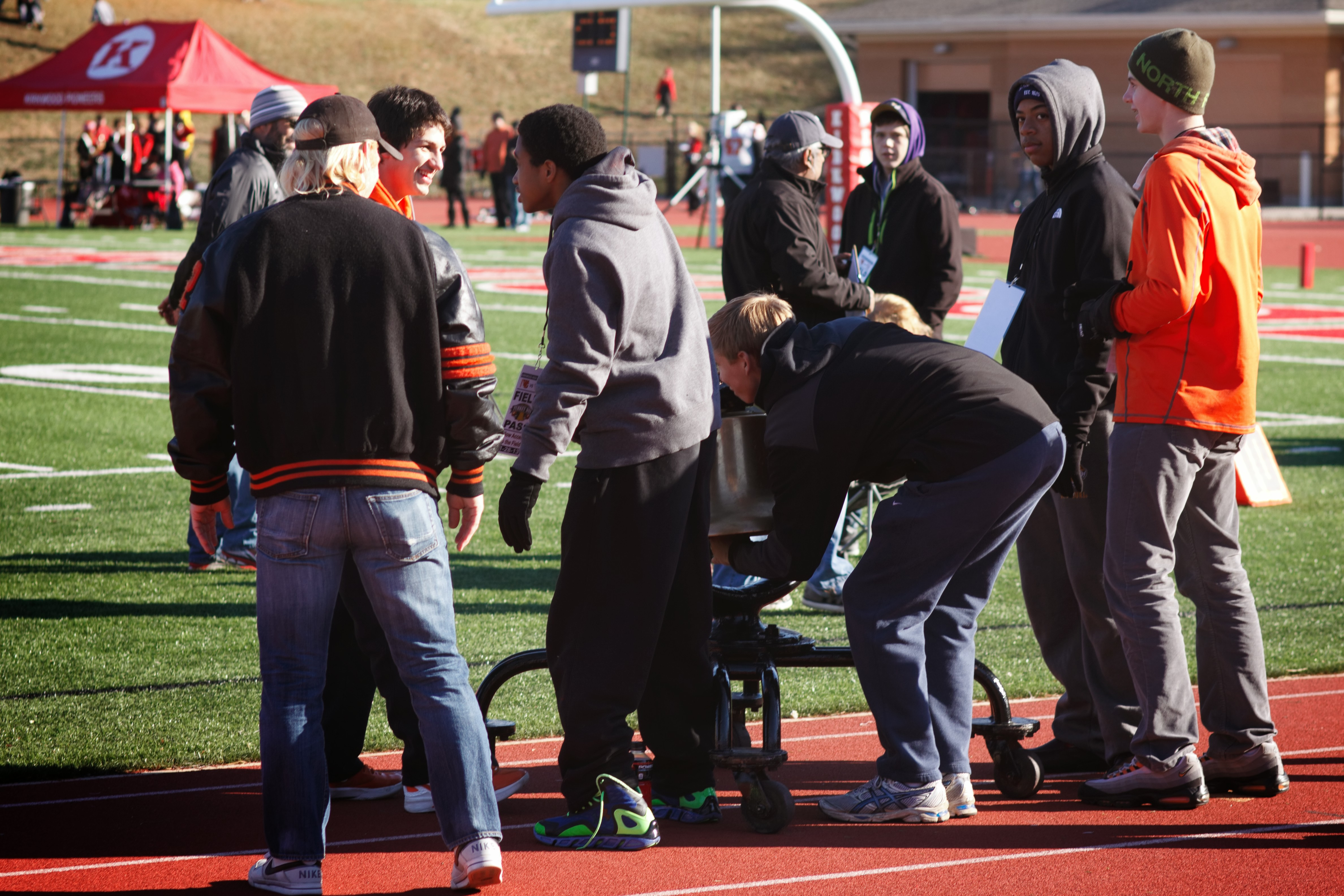 Webster fans ring the Frisco Bell at the Turkey Day game at Lyons Stadium in 2013.